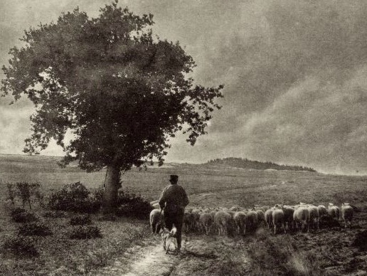 Schaapherder met schaapskudde en herdershond bij een boom op de heide onder een wolkenlucht